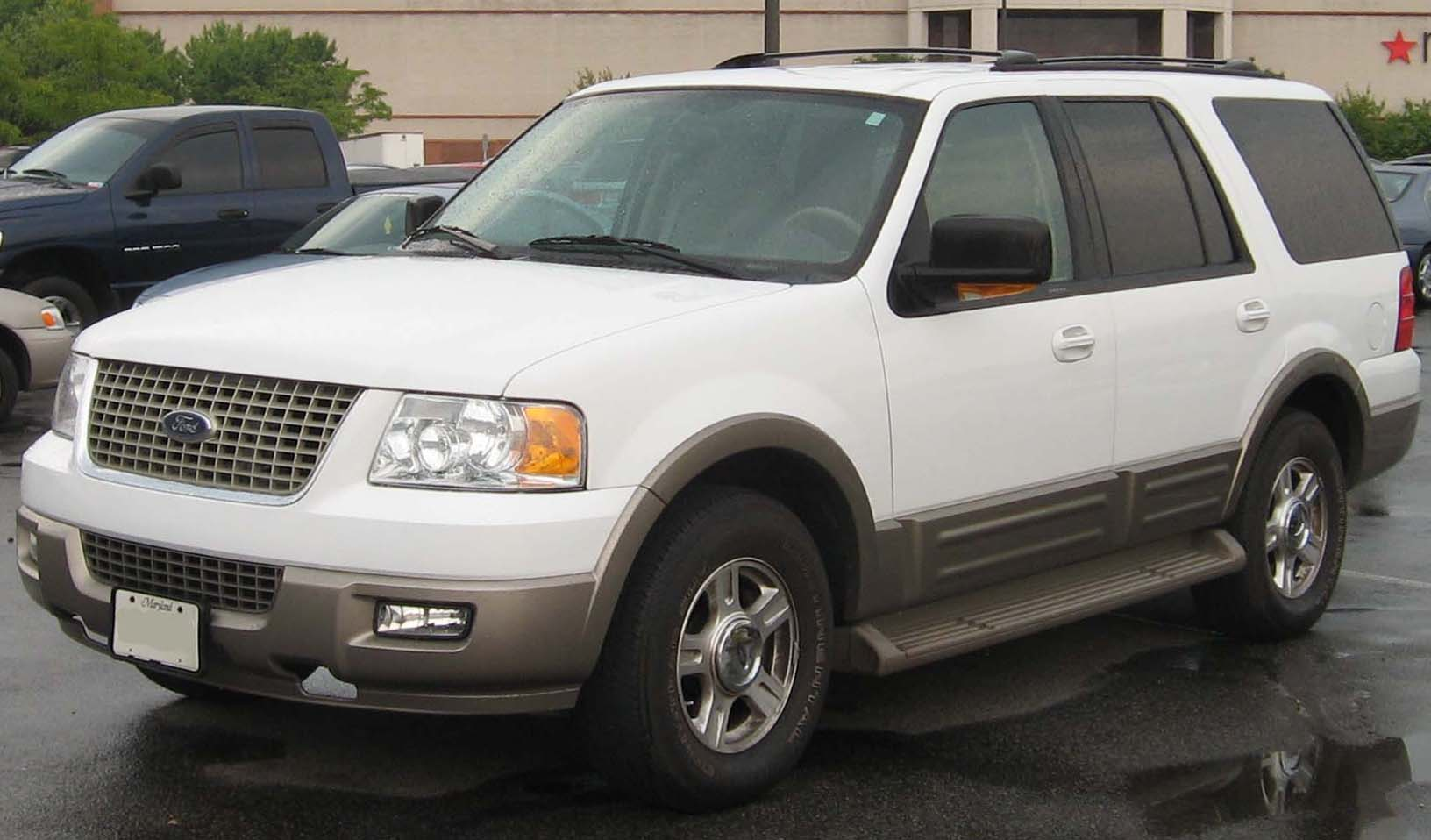 2003-2006 Ford Expedition photographed in USA.